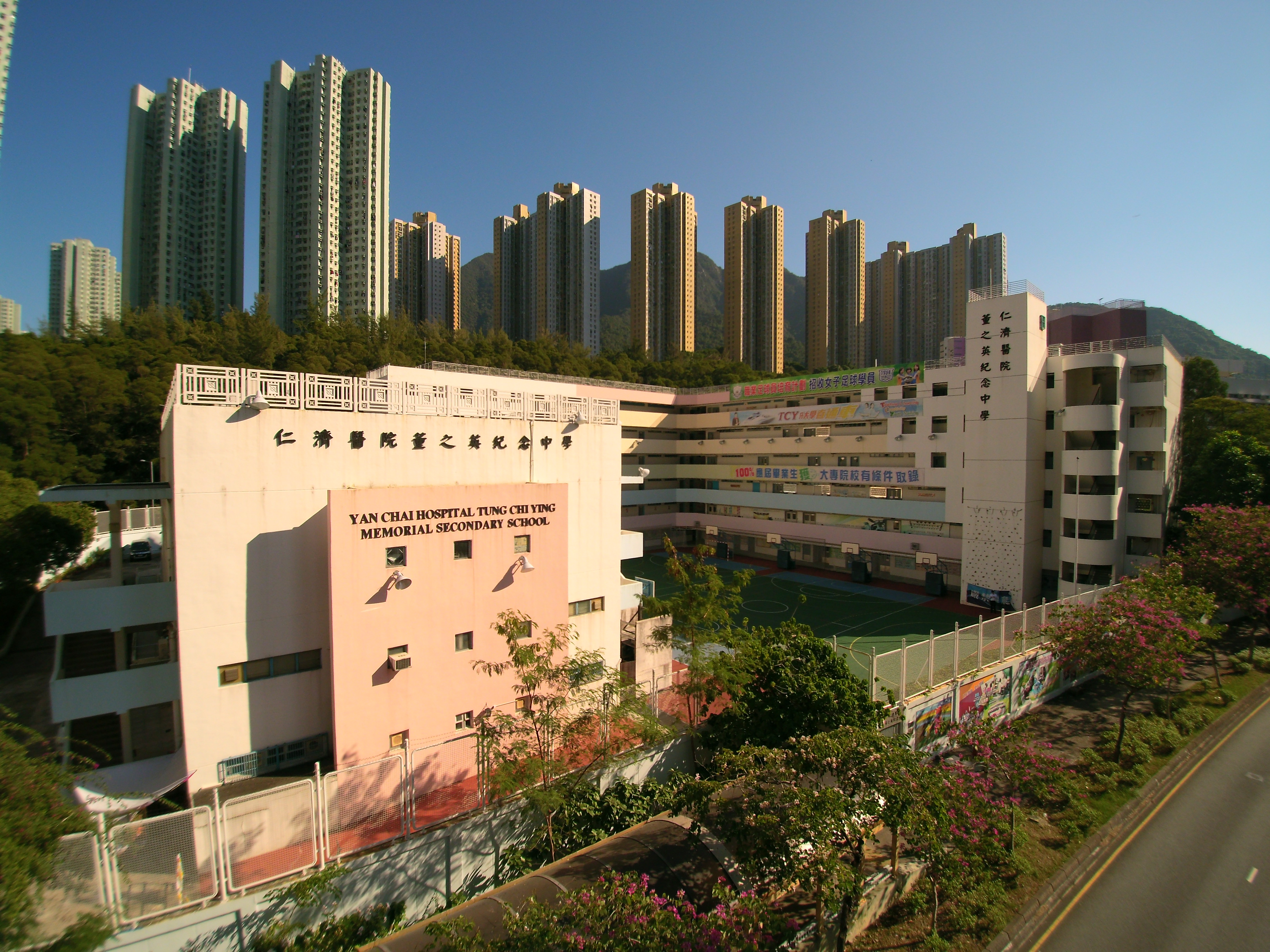 school photo